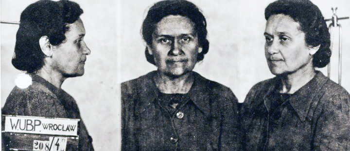 Zofia Orliczowa (1898-1999) - Polish physicist- academic teacher, Leutnant of Armia Krajowa (Home Army) - political prisoner 1948-1953